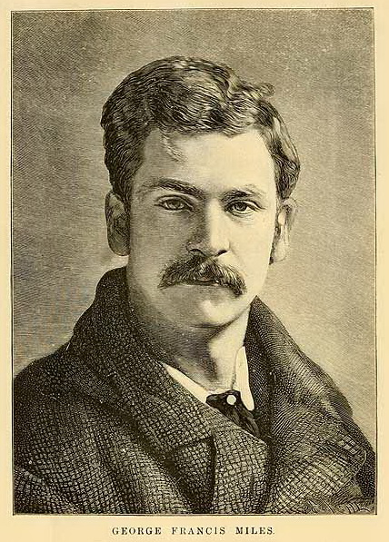 Portrait of George Francis "Frank" Miles (1852-1891) from weekly journal "The Garden" edited by William Robinson